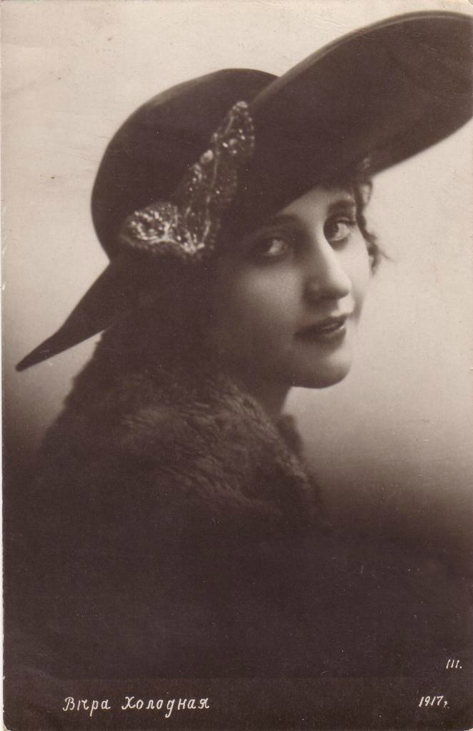 Russian first silent movie star Vera Kholodnaya (1910s).